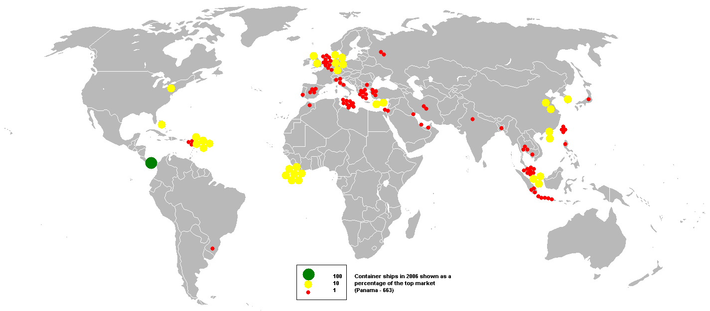 This bubble map shows the global distribution of container ships in 2006 as a percentage of the top market (Panama - 663). This map is consistent with incomplete set of data too as long as the top producer is known. It resolves the accessibility issues faced by colour-coded maps that may not be properly rendered in old computer screens. Data was extracted on 30th September 2007 from Based on :Image:BlankMap-World.png